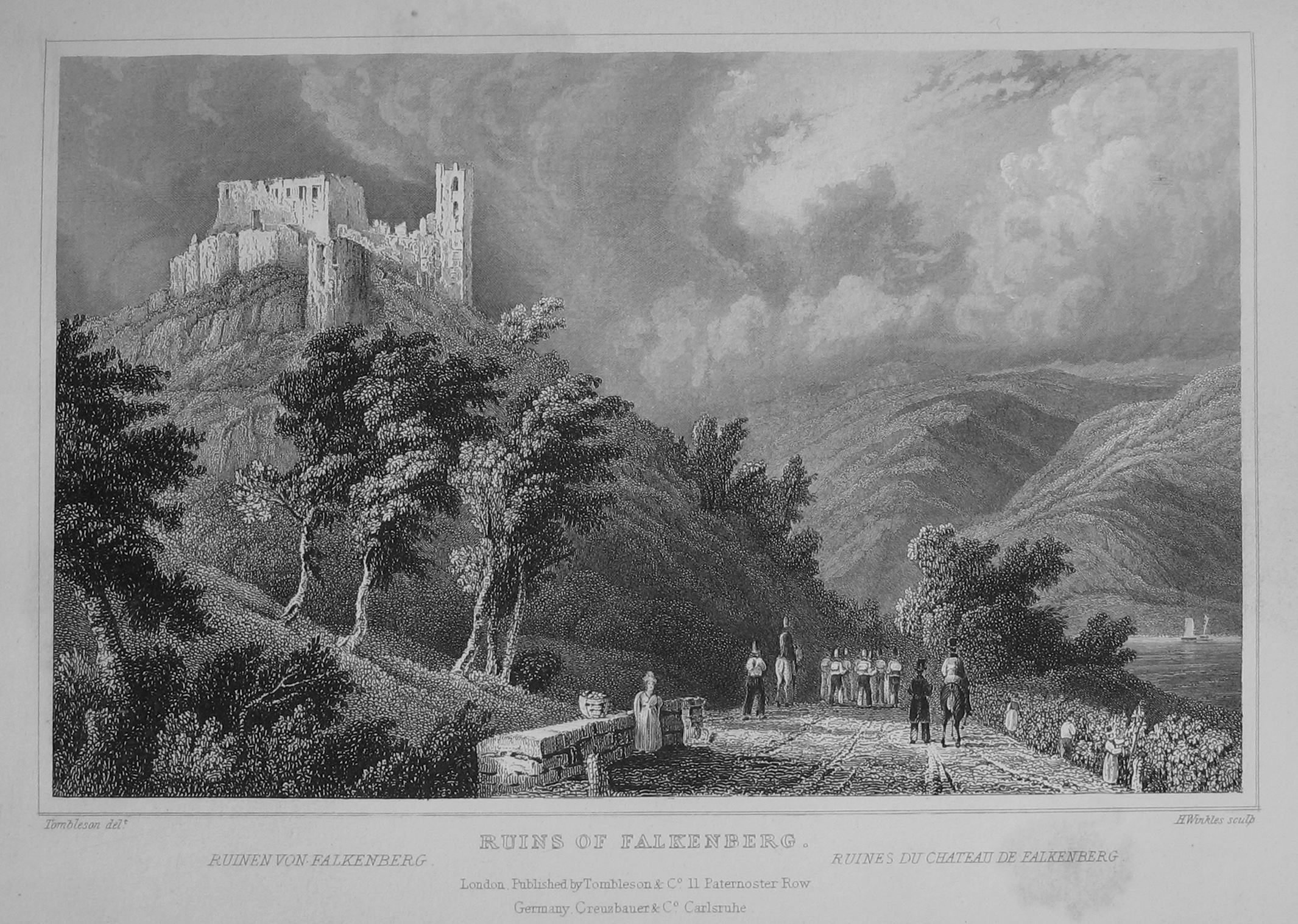 Steel engraving by Henry Winkles in William Tombleson´s "Views of the Rhine" (before 1832): Ruins of Reichenstein Castle near the village of Trechtingshausen (the name Falkenberg was a mistake)